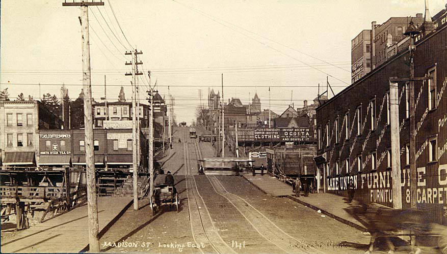 Caption on image: "Madison St. looking East" Shows cable cars of the Madison Street Cable Railway on Madison St, and cable cars of the Front Street Cable Railway on 1st Ave. Subjects (LCTGM): Streets--Washington (State)--Seattle; Buildings--Washington (State)--Seattle; Street railroads--Washington (State)--Seattle; Carts & wagons--Washington (State)--Seattle Subjects (LCSH): Madison Street (Seattle, Wash.); Lake Union Furniture Company (Seattle, Wash.)